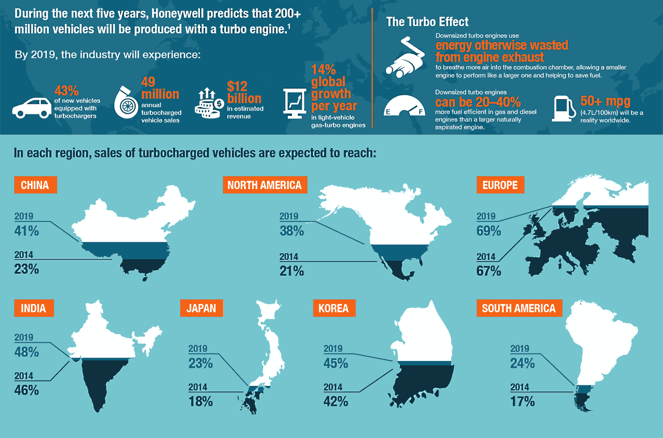 Honeywell's annual turbo market survey projects growth of turbocharged vehicles from 2014 to 2019